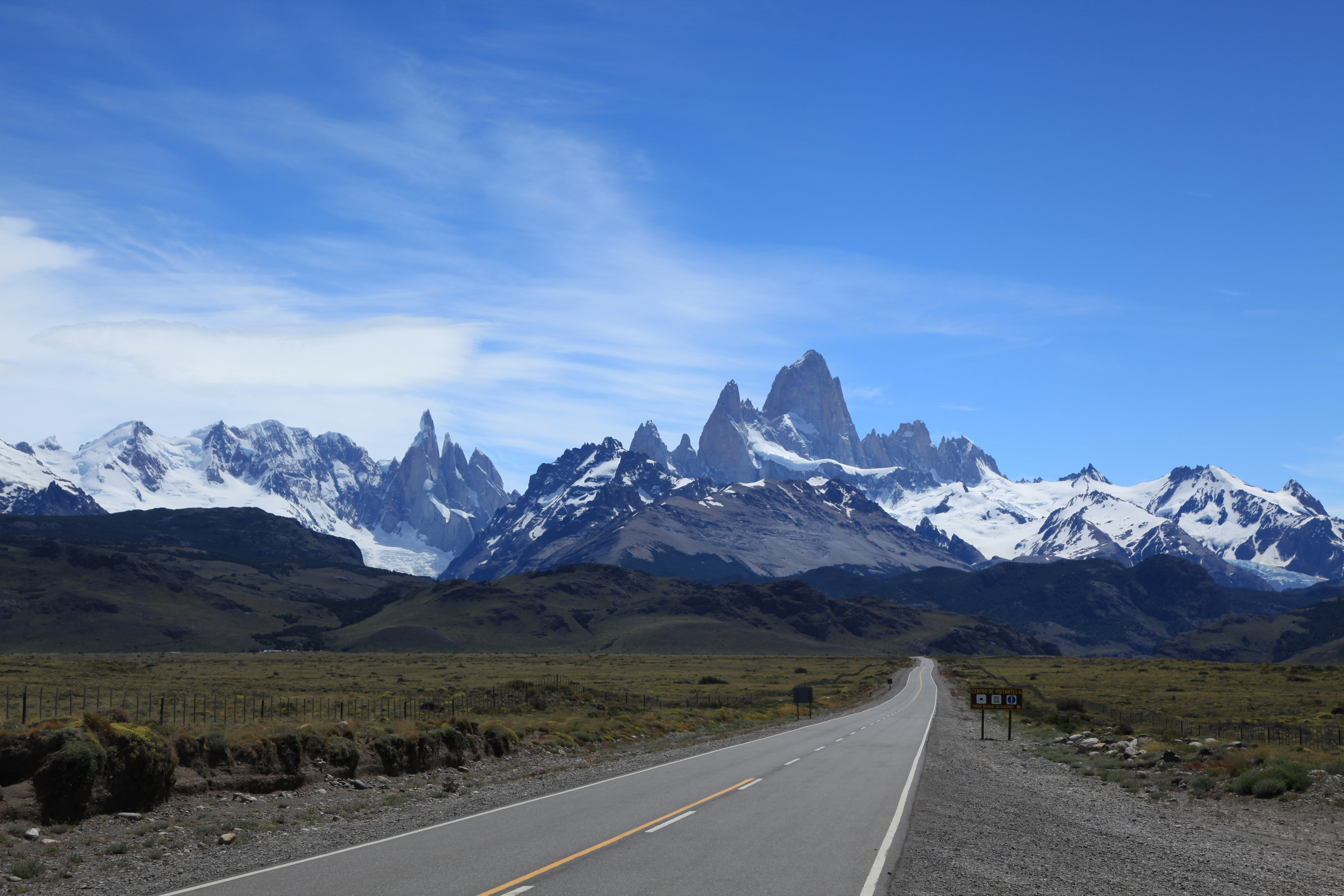 Cerro Torre and Mount Fitz Roy near El Chaltén